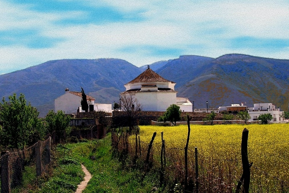 San Sebastian Church, Orgiva